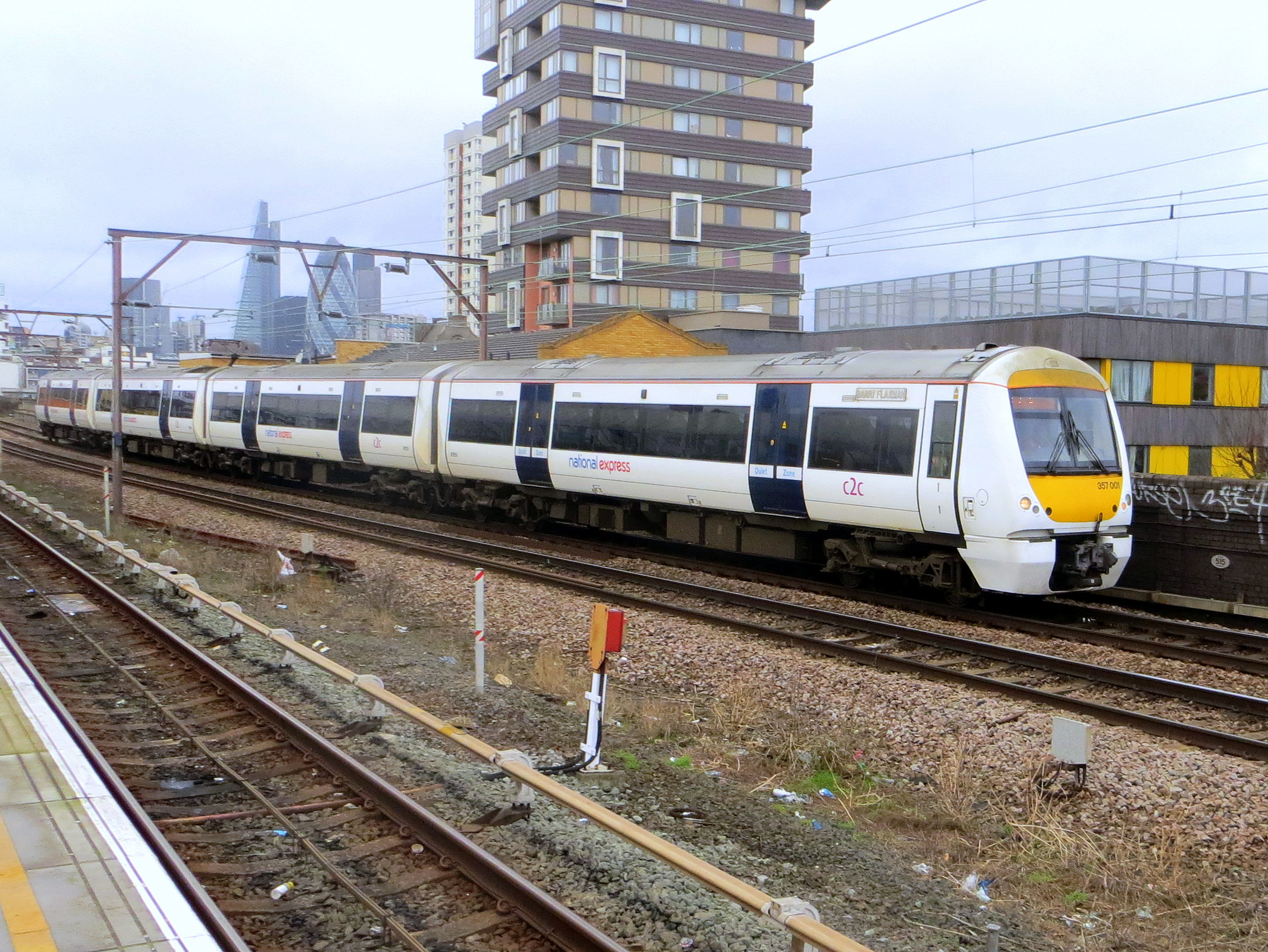 C2C train passing Shadwell